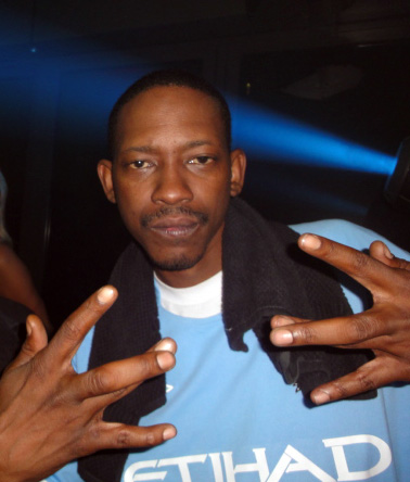 Kurupt at Allure on Yas Island, following the Snoop Dogg concert on May 6th 2011.